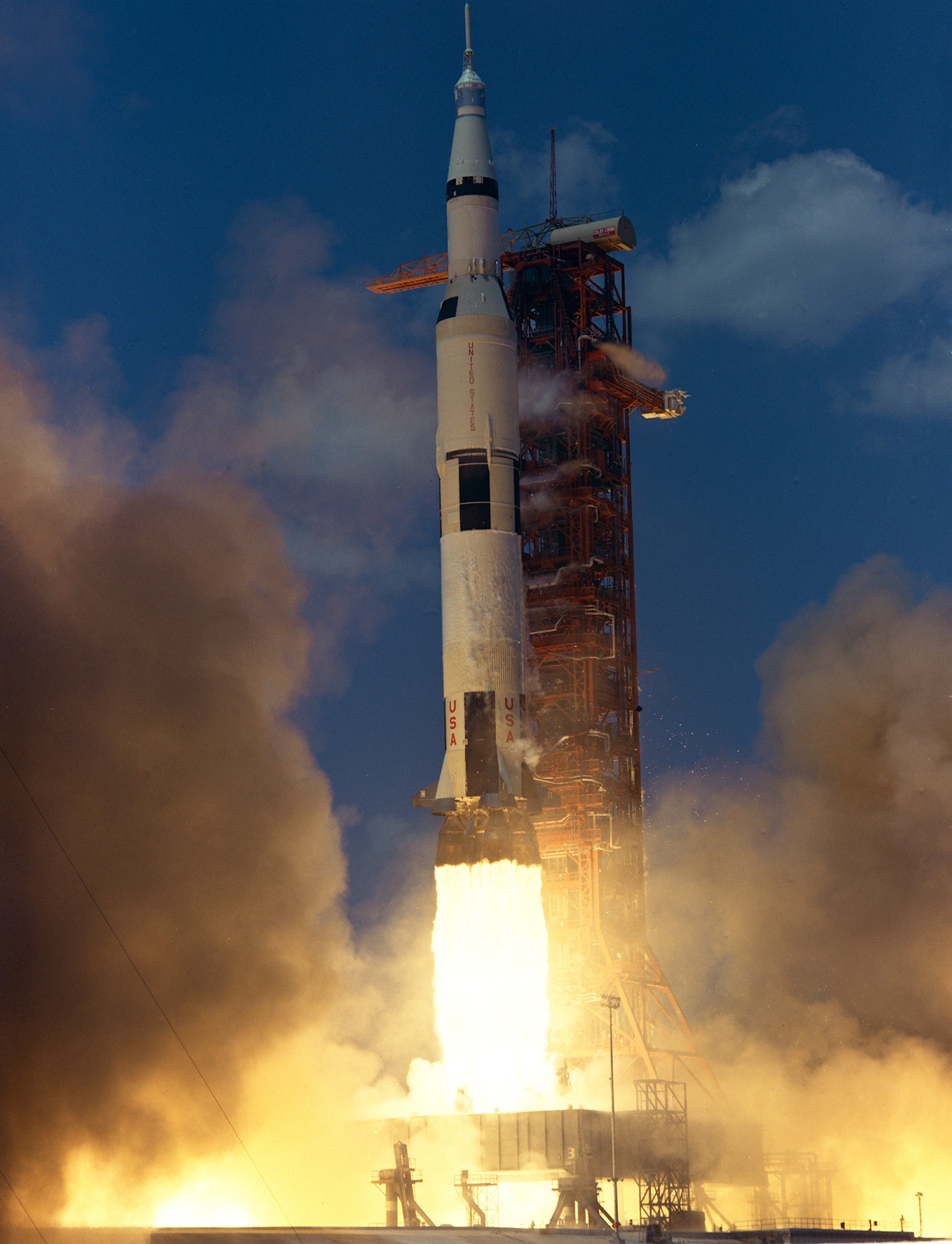 Apollo 16 (AS-511) Liftoff